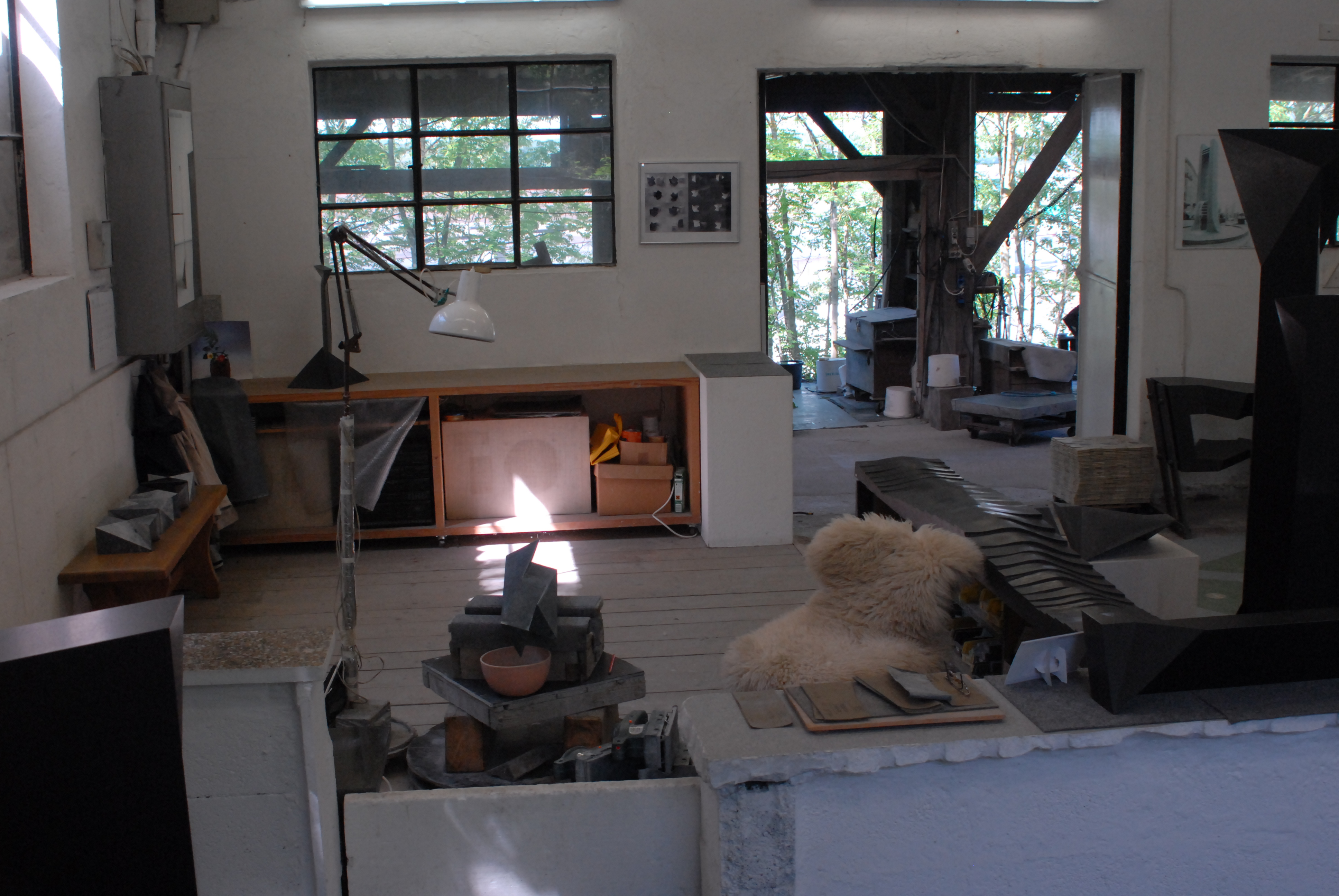 Atelier of Osamu Nakajima in Gusen/Austria